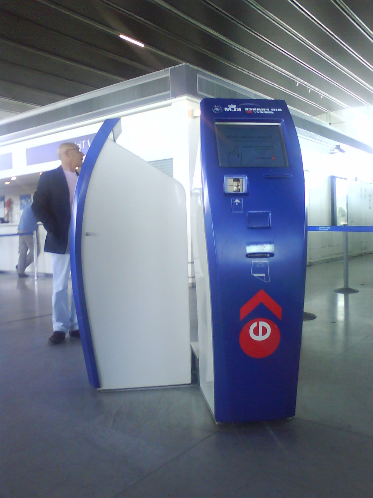 boarding pass in Bordeaux Airport (France) .